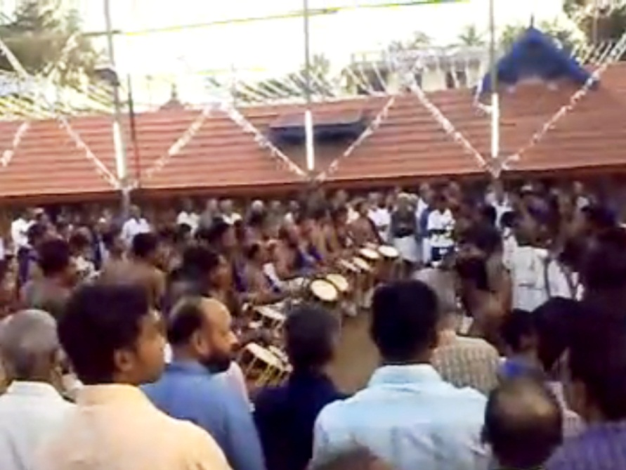 Chakkamkulangara Temple in Thrippunithura, Kerala, India